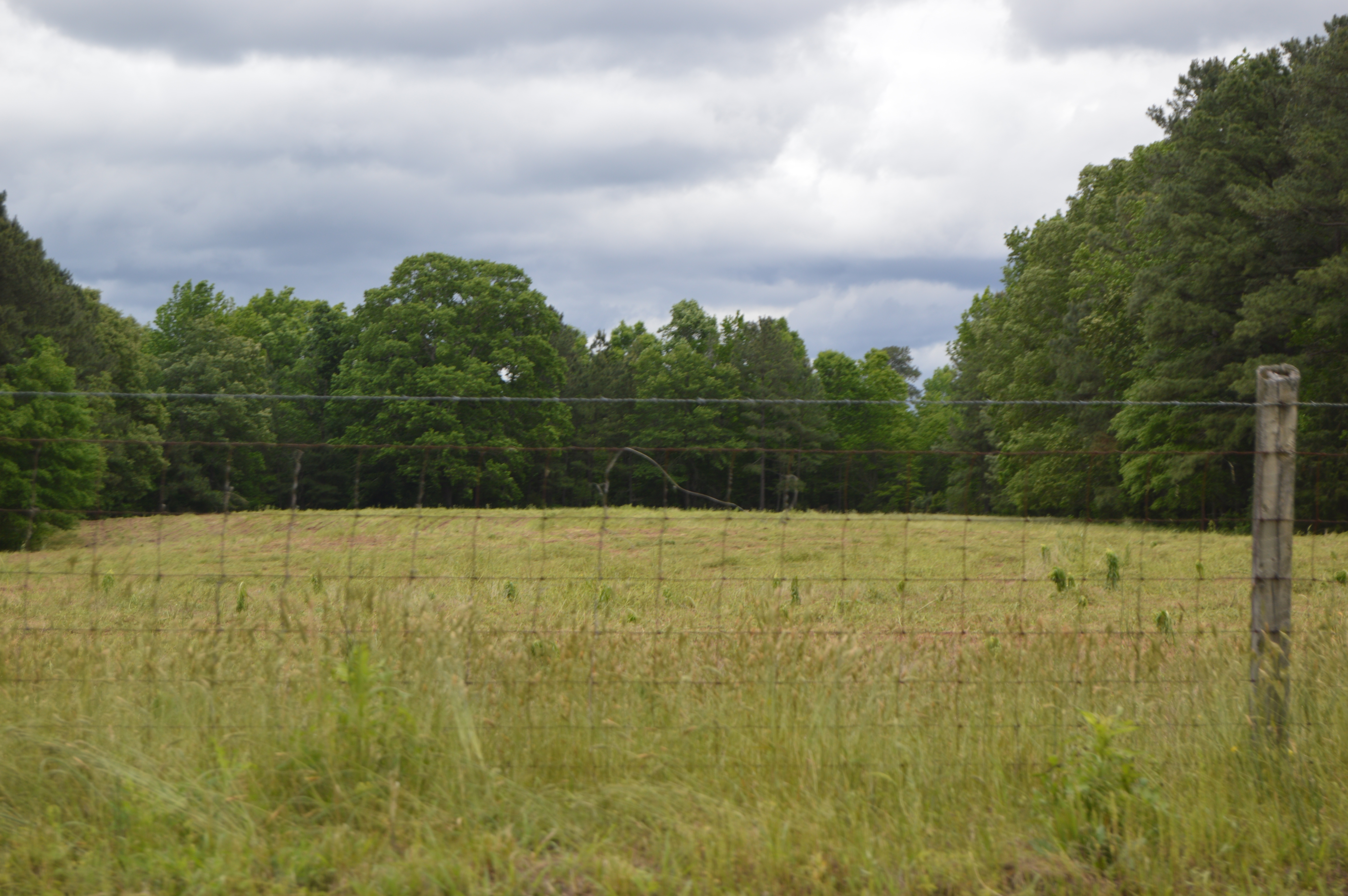 Looking over fields toward the Williamson Site, an archaeological site located north of Williamson Road between Templeton and Dinwiddie Court House in Dinwiddie County, Virginia, United States. One of eastern North America's most significant Clovis sites, it is listed on the National Register of Historic Places.